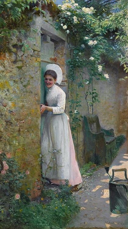 By the Garden Door, painting by American artist Frank Crawford Penfold, oil on canvas, 100.3 x 58.4 cm